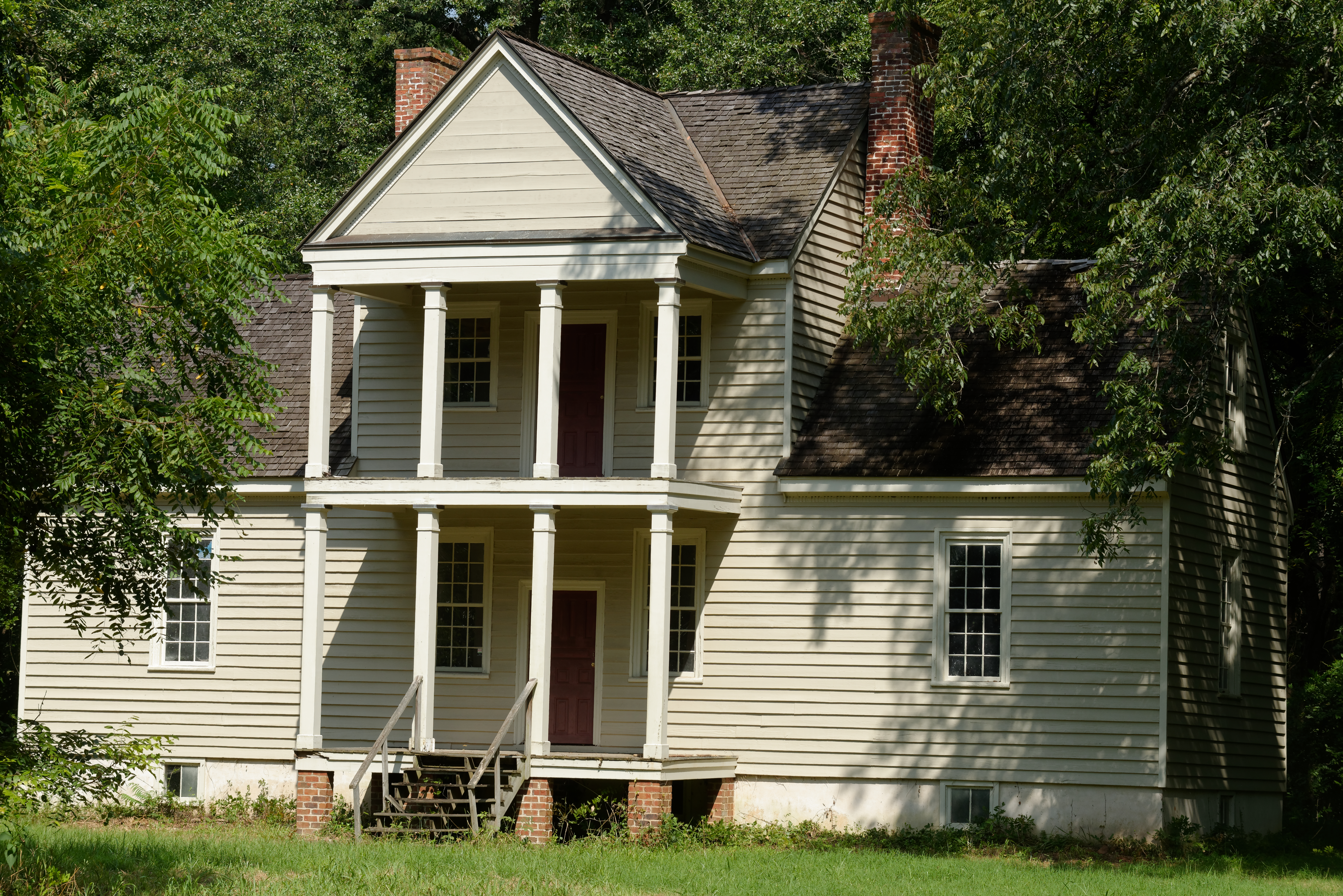 Cabaniss-Hanberry House, Jones County, Georgia, US